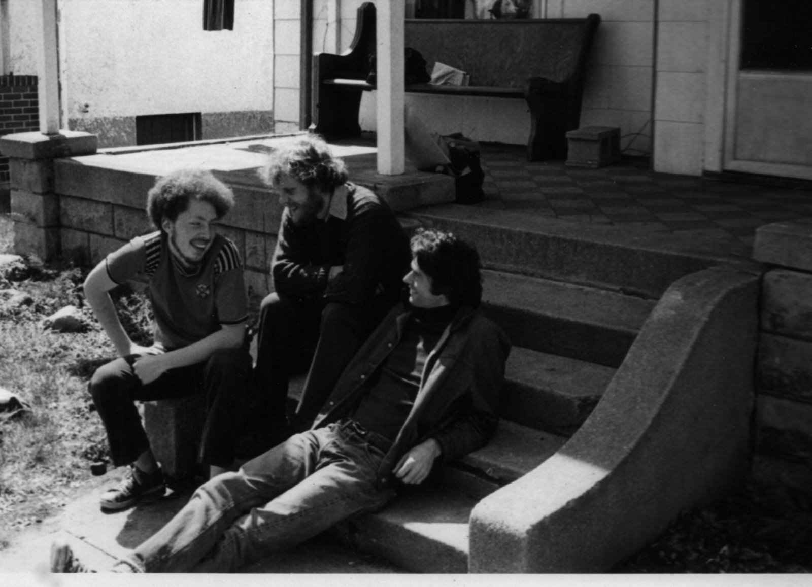 This photo of Richard Dworkin, Ed Felien and Warren Hanson was taken in front of the Hundred Flowers collective household after Hundred Flowers ceased publication.